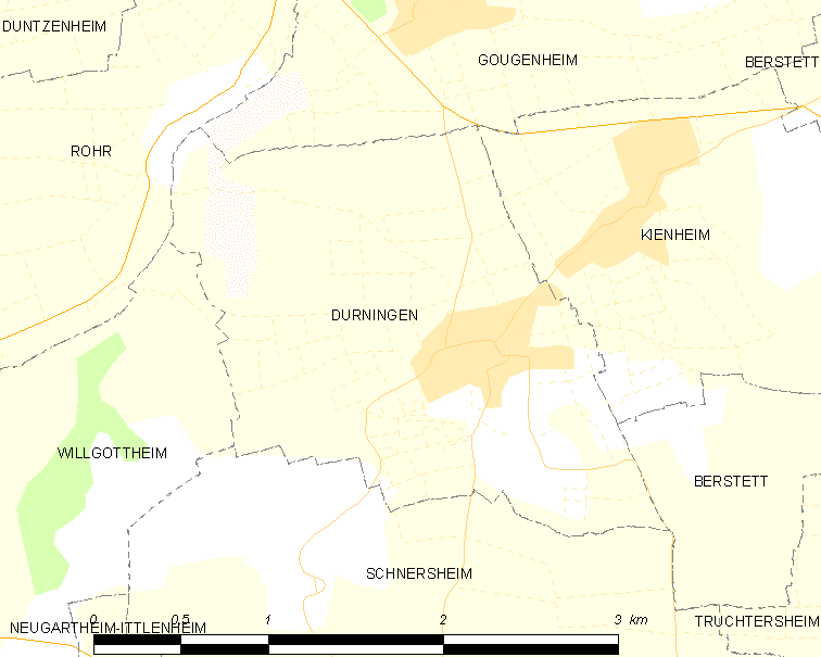 Map of French municipality